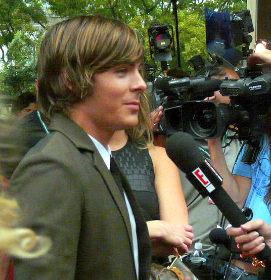 Zac Efron Arrives at Tiff '08 Premiere of Me and Orson Welles.